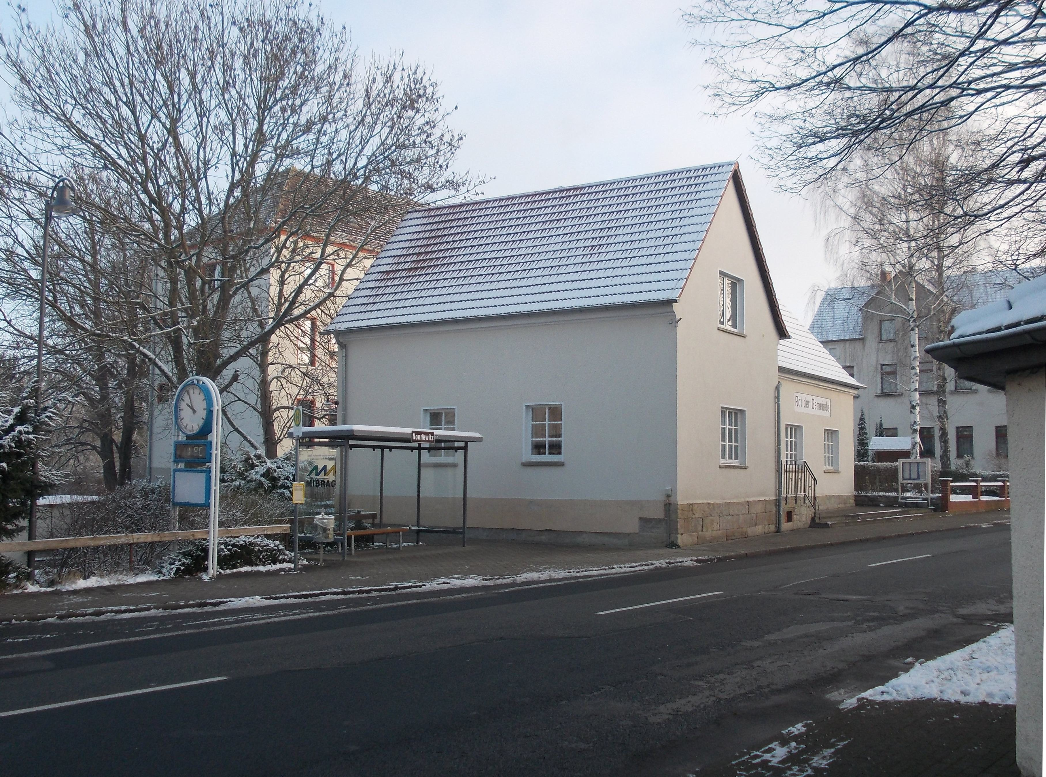 Former municipal offices in Nonnewitz (Zeitz, district: Burgenlandkreis, Saxony-Anhalt)